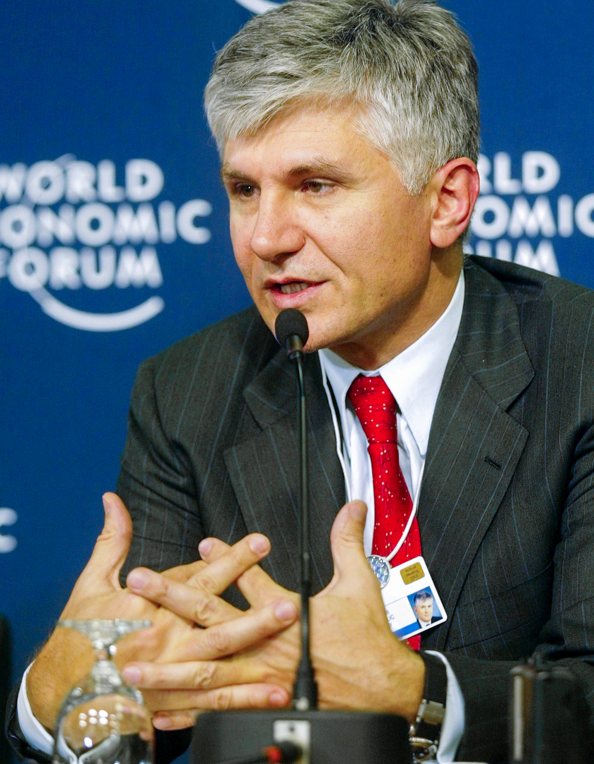 DAVOS,24JAN03 - Zoran Djindjic, Prime Minister, Republic of Serbia, speaks during the Press Conference at the 'Annual Meeting 2003' of the World Economic Forum in Davos/Switzerland, January 24, 2003. copyright by World Economic Forum by Marcel Bieri